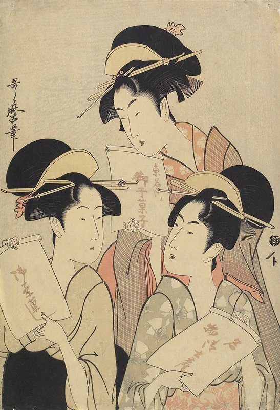 Full-clolour nishiki-e woodblock print by ukiyo-e artist Kitagawa Utamaro